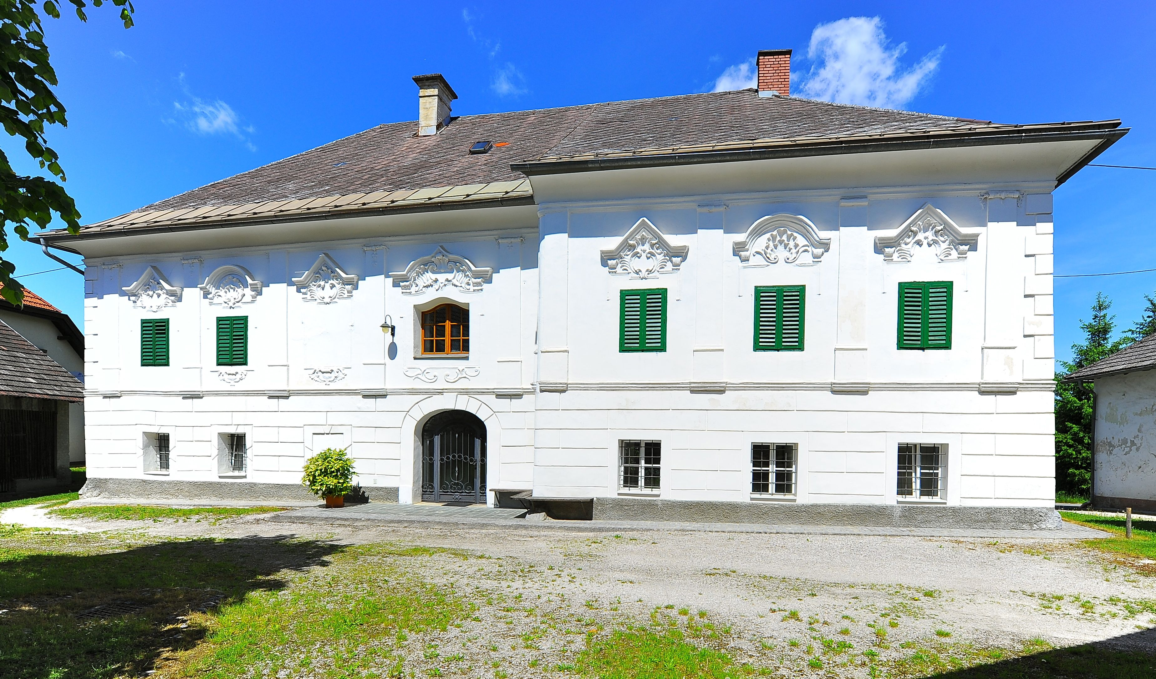 Mansion “Friedlstoeckl” at Kirschentheuer #29, municipality Ferlach, district Klagenfurt Land, Carinthia, Austria